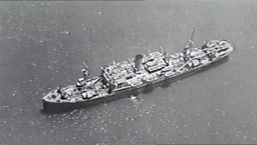 Aerial port side view of the American vessel Contessa. Note the 5 inch gun and the 20 mm Oerlikon AA guns aft. Further 20 mm guns are mounted in the bows and at either end of the superstructure. (Naval Historical Collection)